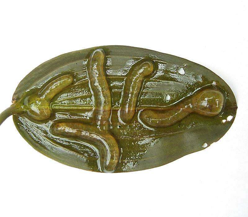 Potamogeton natans leaf underside with spawn of Lymnaea stagnalis.